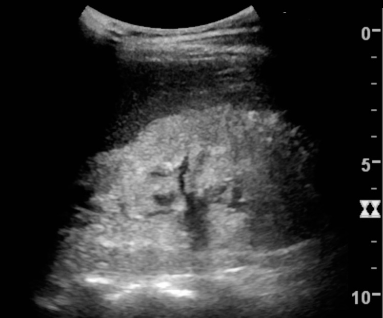 Nephrotic syndrome. Hyperechoic kidney without demarcation of cortex and medulla. For context, see Renal ultrasonography